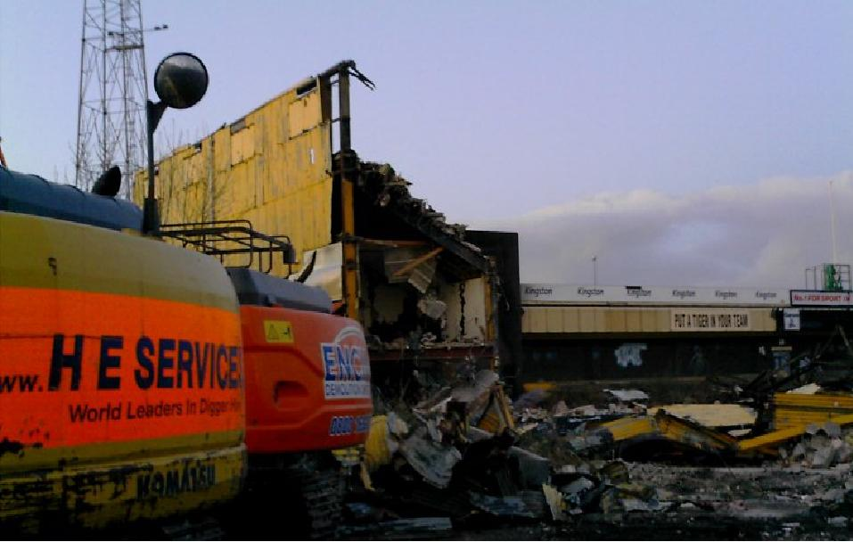 Boothferry Park Boothferry Road, Hull, East Riding of Yorkshire, England, in demolition.